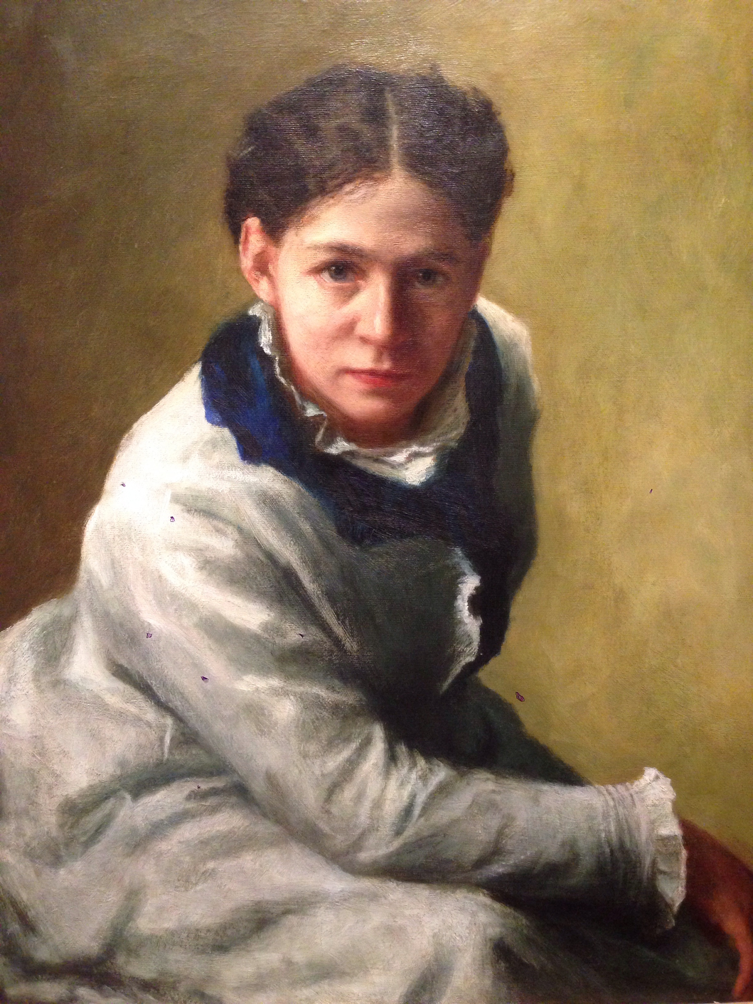 1880 oil painting on canvas of Sara Cowell (later le Moyne) by Jane E Bartlett, an American painter from Boston. On exhibit at the Brooklyn Museum.